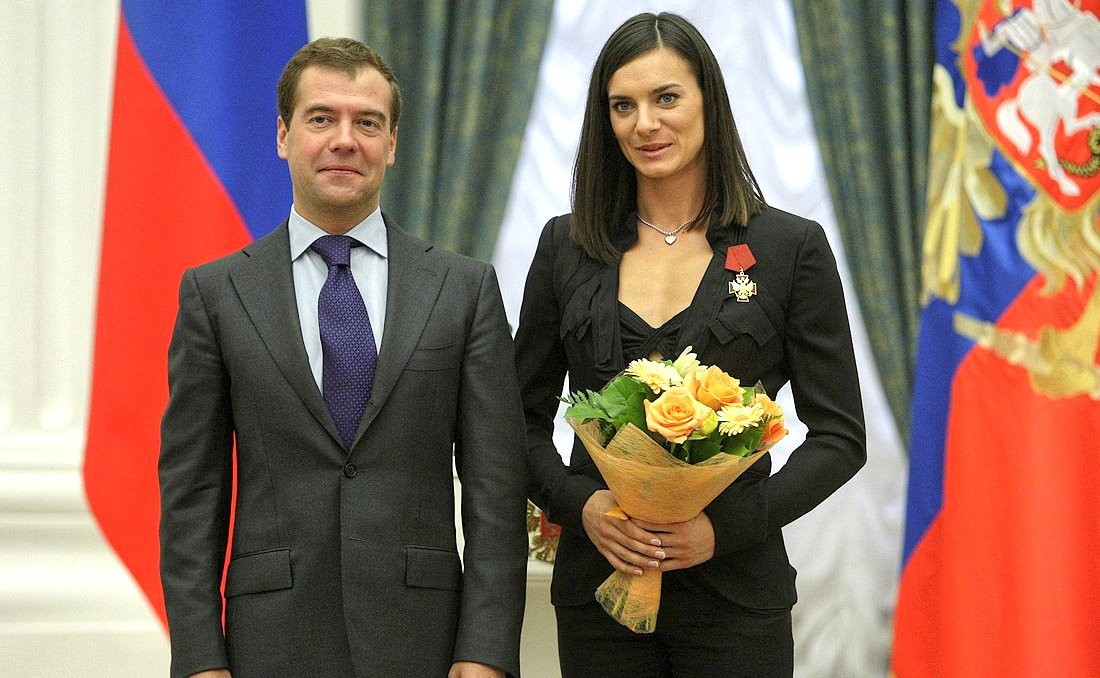 Elena Isinbaeva in Kremlin